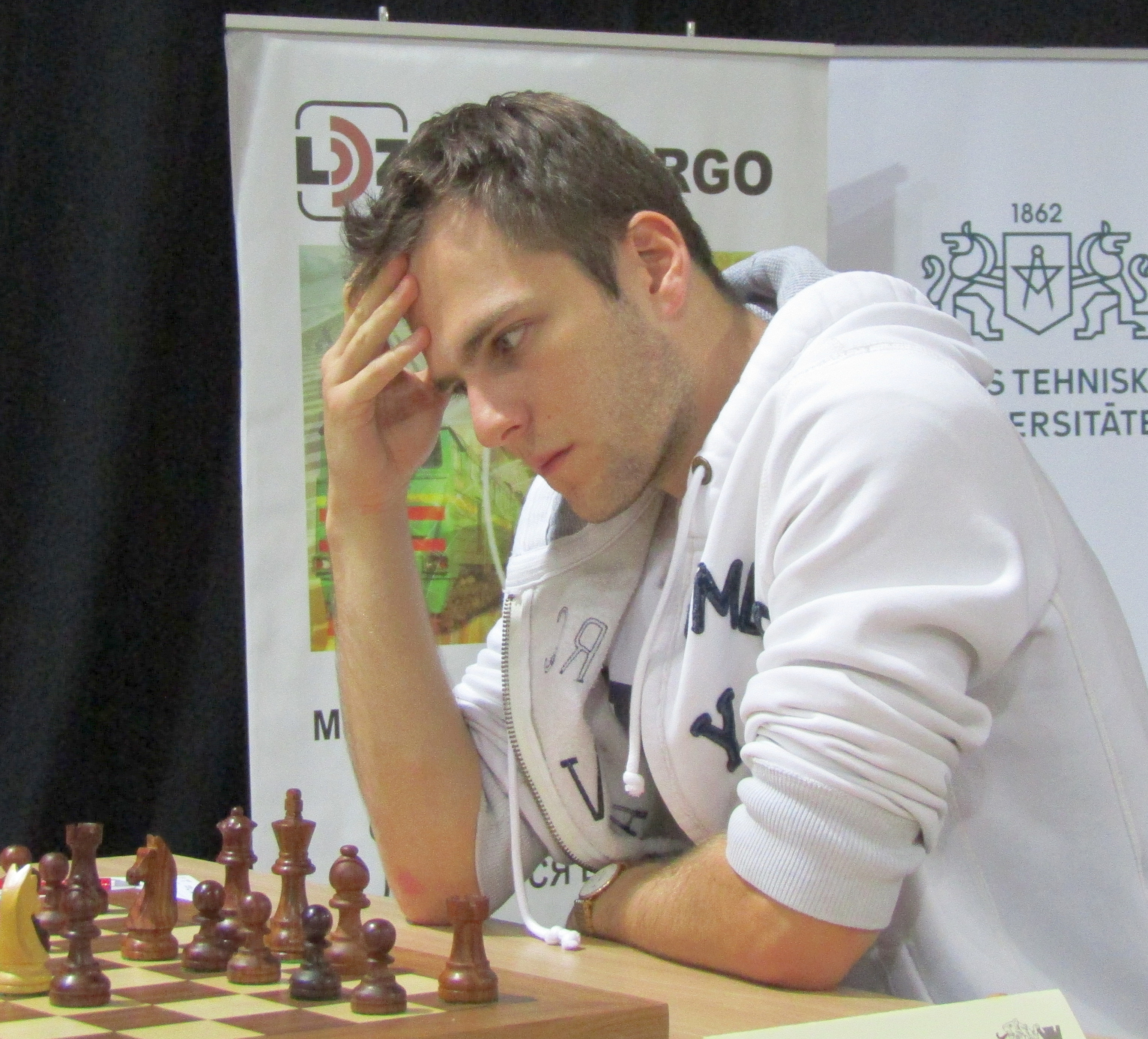 Daniil Yuffa, chess grandmaster from Russia, 2016